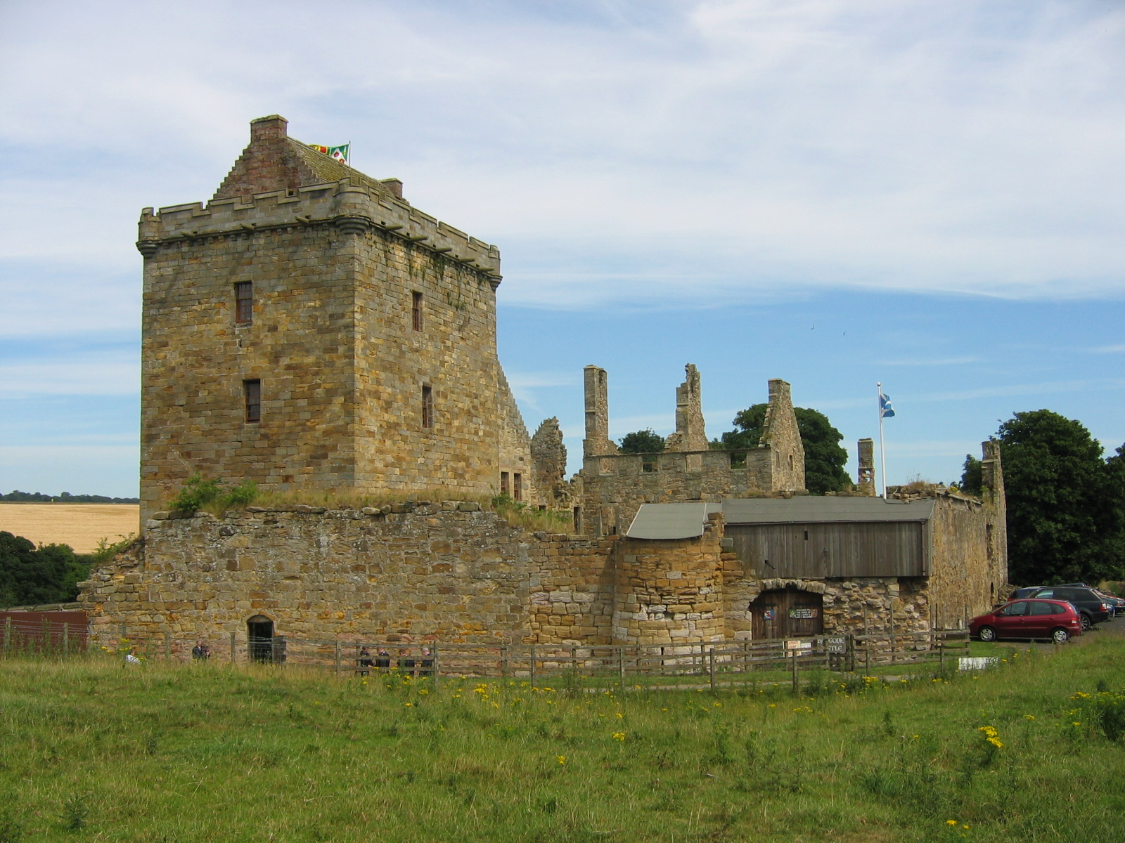 South-west view, Balgonie Castle, Glenrothes, Scotland. Taken by User:Supergolden on 14 July 2006.